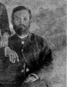 Cipriano Castro at the age of 20.